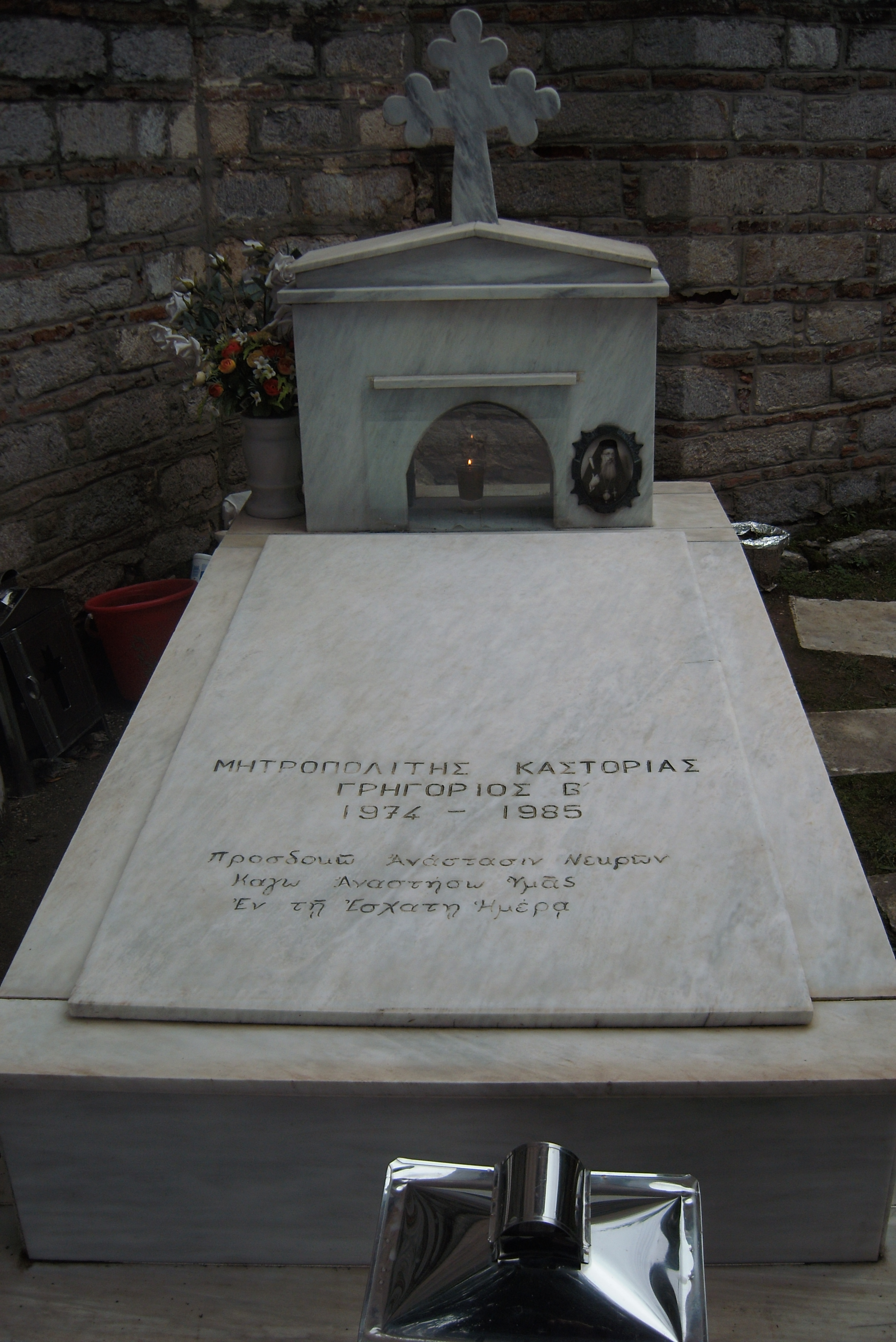 Grigorios II of Kastoria Grave in Kastoria Mitropoly yard